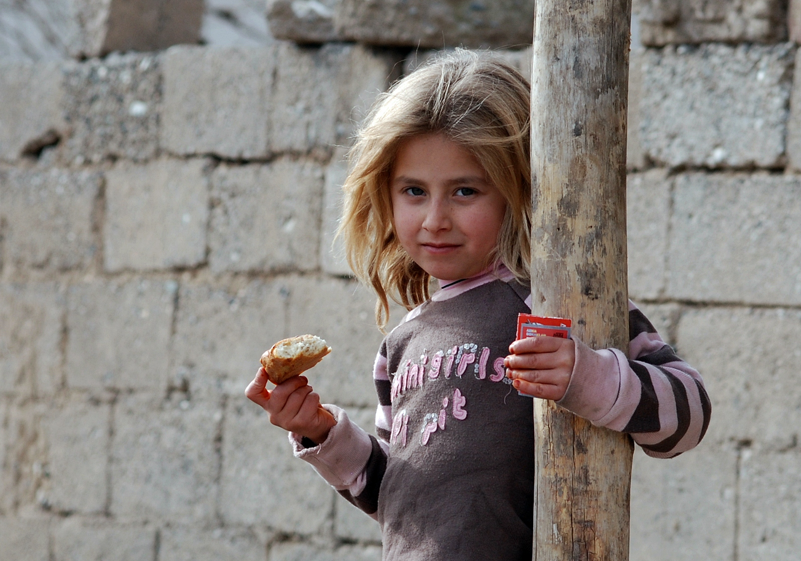 Kurdish Child Kurdî: Ji Quzêrîb zarokek.